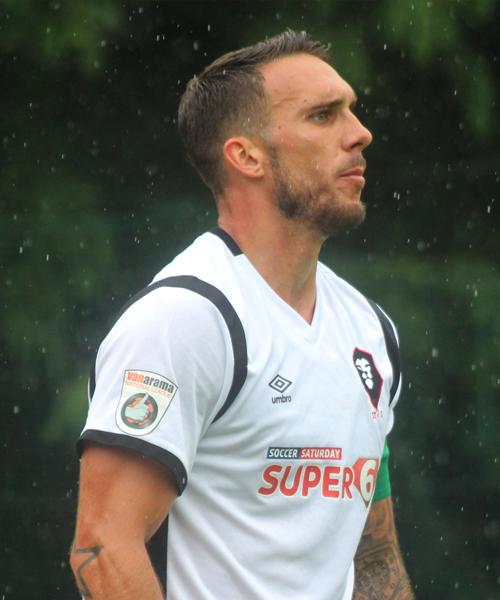 Liam Hogan playing for Salford City in July 2017.